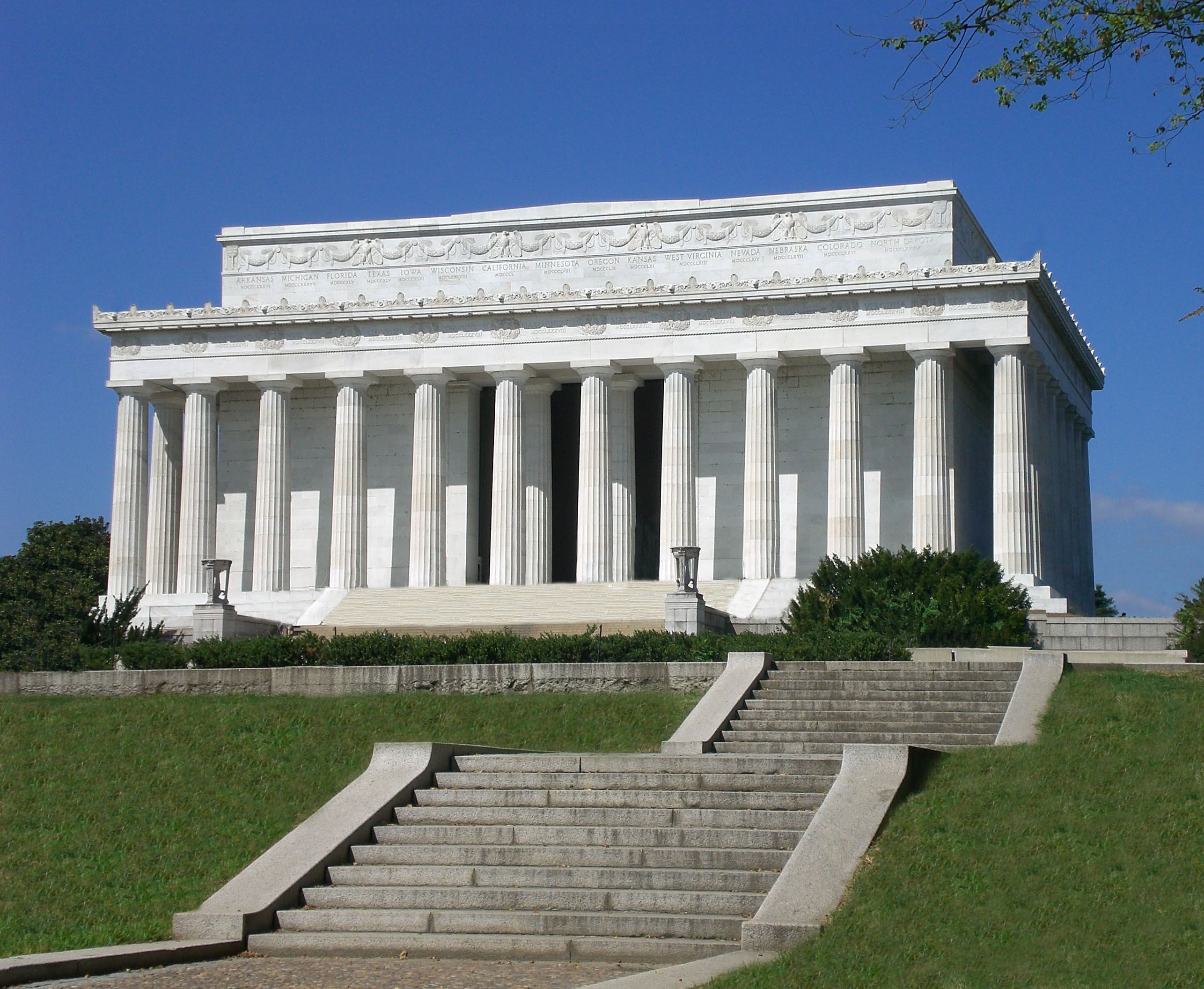 The front of the Lincoln Memorial in Washington DC